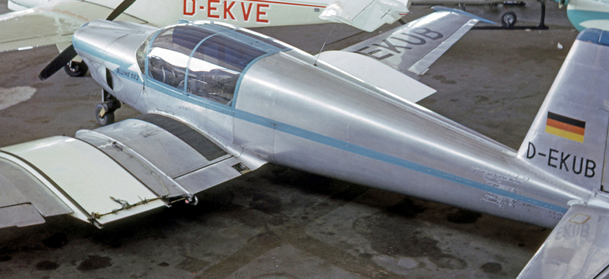 Blume Bl.503 four-seat utility aircraft D-EKUB at Munich Riem Airport in 1965